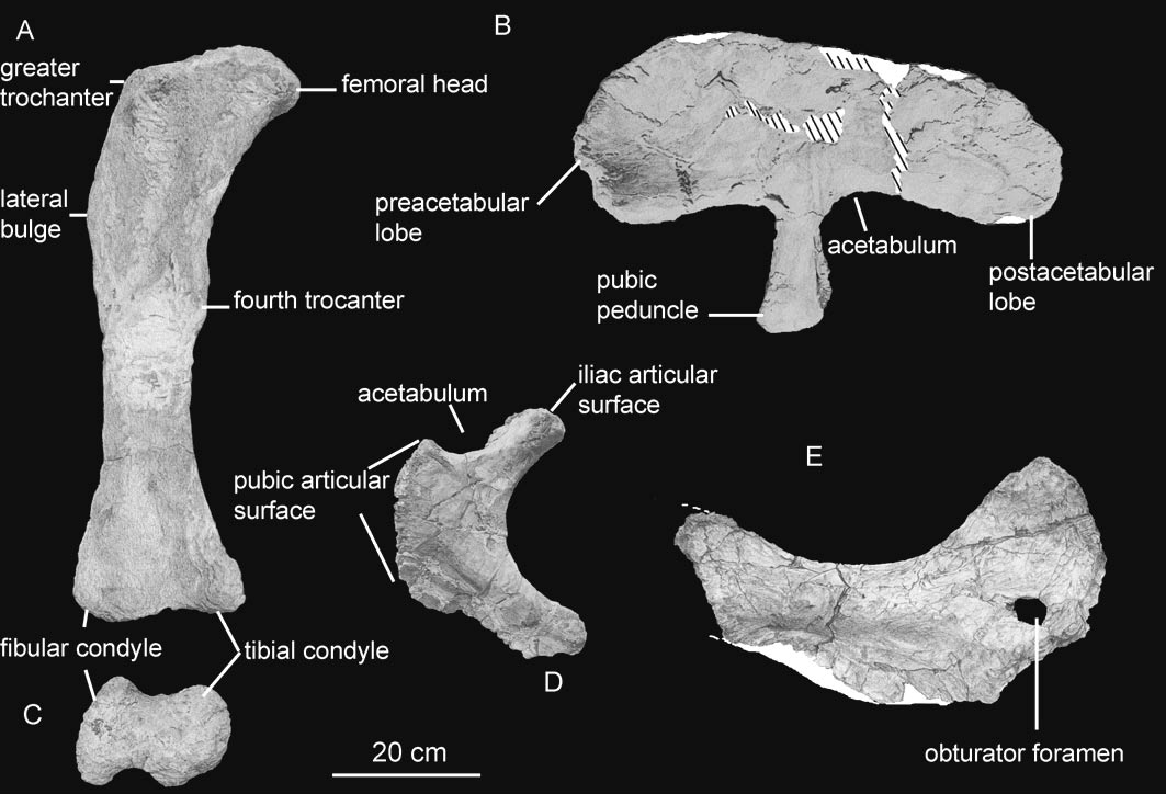 Rocasaurus muniozi. A and C, left femur (MPCA-Pv 46/16) in posterior and distal view. B, left ilium (MPCA-Pv 46/12) in lateral view. D, left ischium (MPCA-Pv 46/11) in lateral view. E, left pubis (MPCA-Pv 46/15) in lateral view.